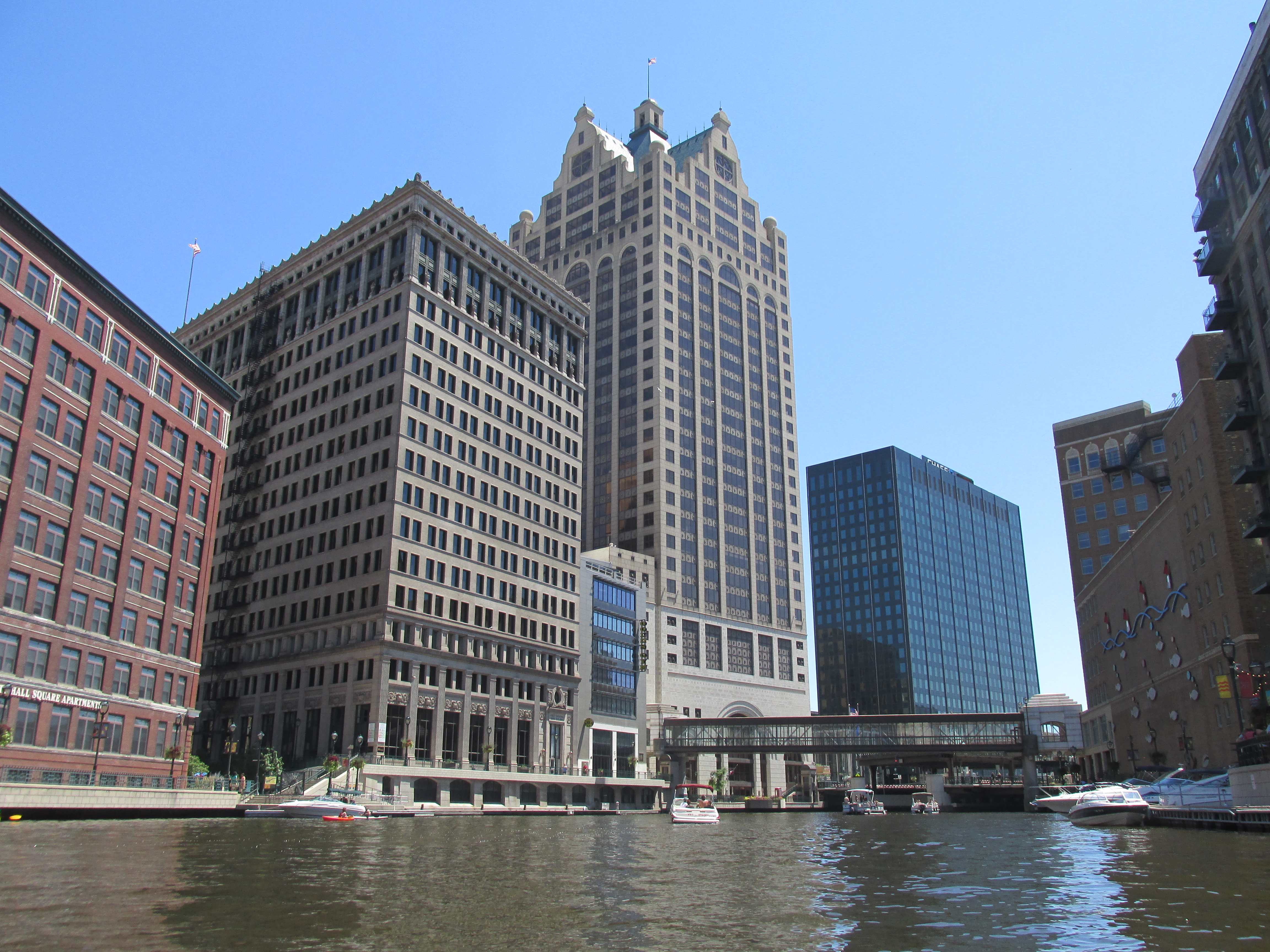 Downtown Milwaukee from the Milwaukee River